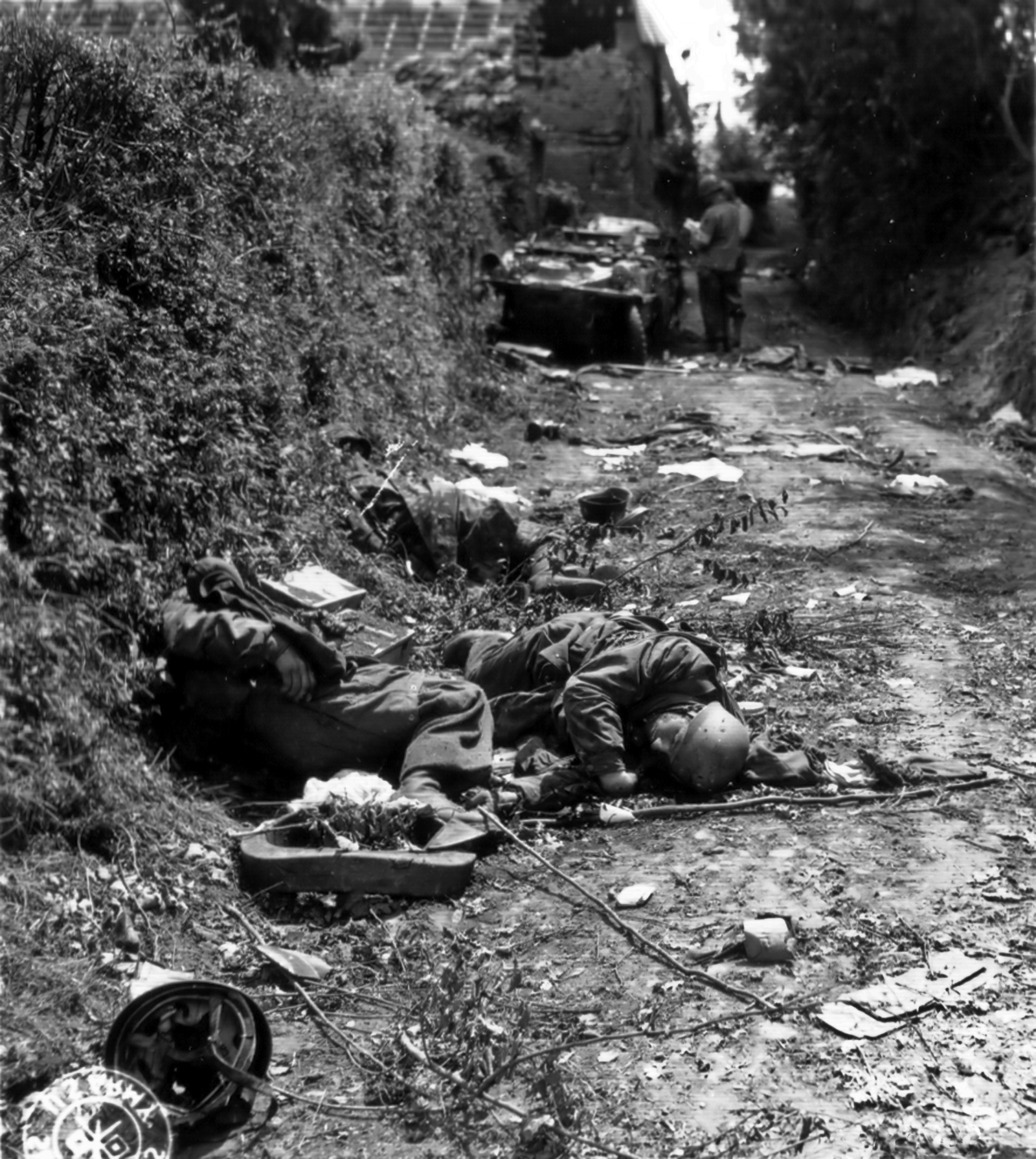 west of Sainteny, France, American soldiers inspect a destroyed German convoy. In the foreground, the bodies of three German parachutists of the FJR.6 (Fallschirmjäger) lie dead. In the background a Schwimmwagen VW 166, at side two GI'S of the 4th US Inf Div including one wearing a medic’s arm-band.